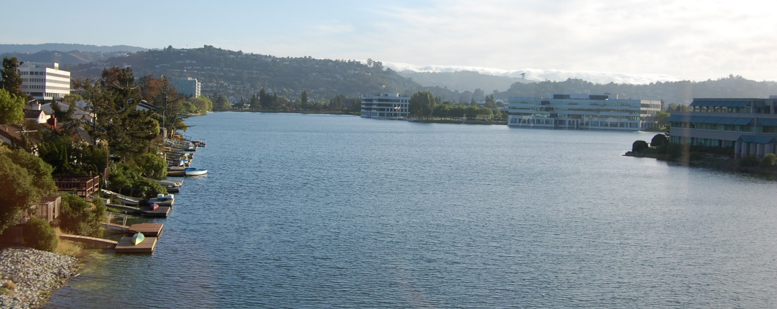 Redwood Shores, California with Belmont, California in background